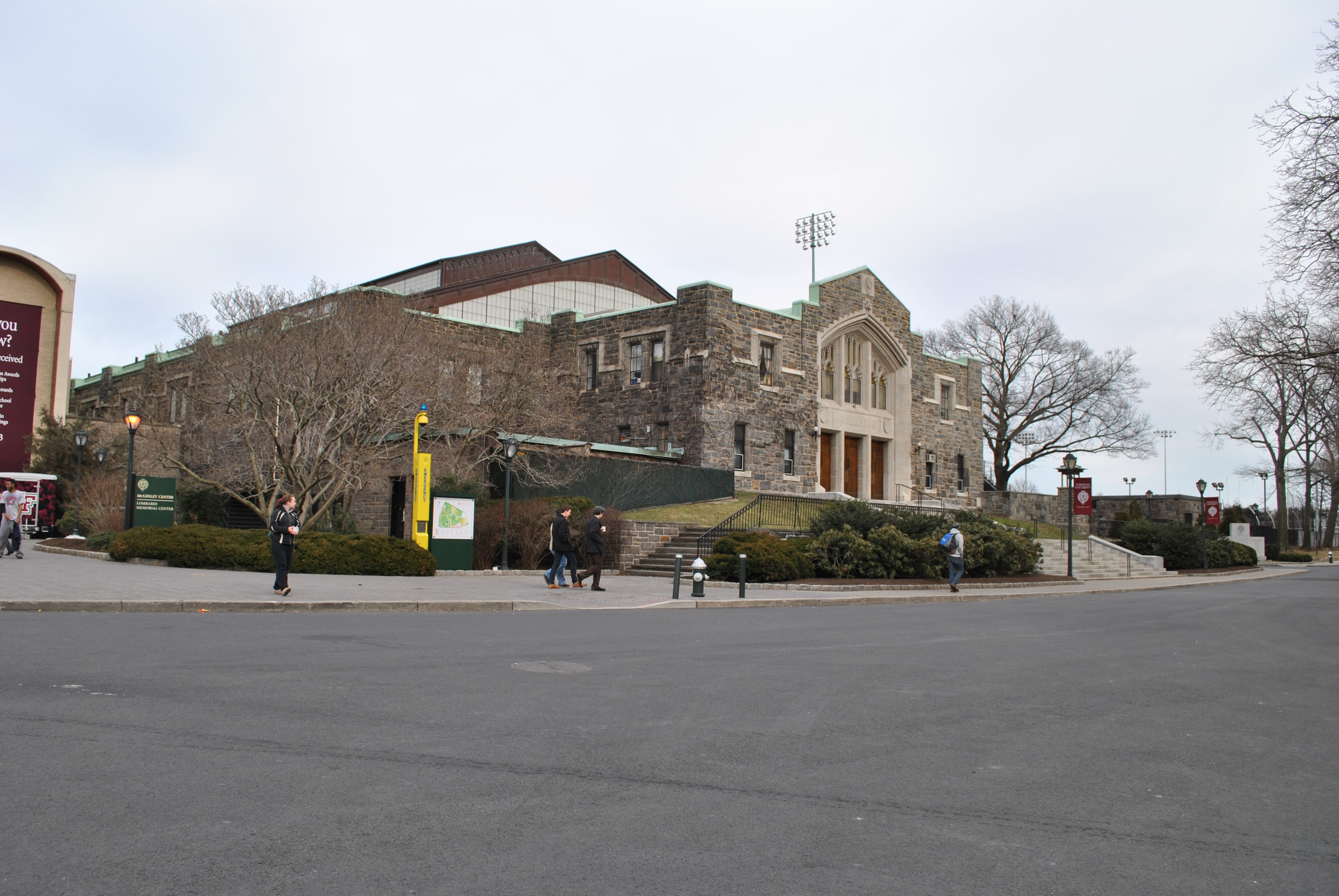 Fordham University Gym